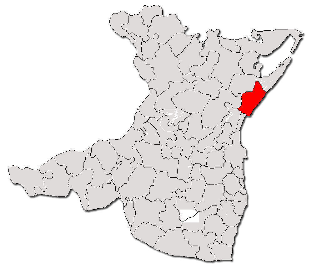 Contour map of commune Corbu